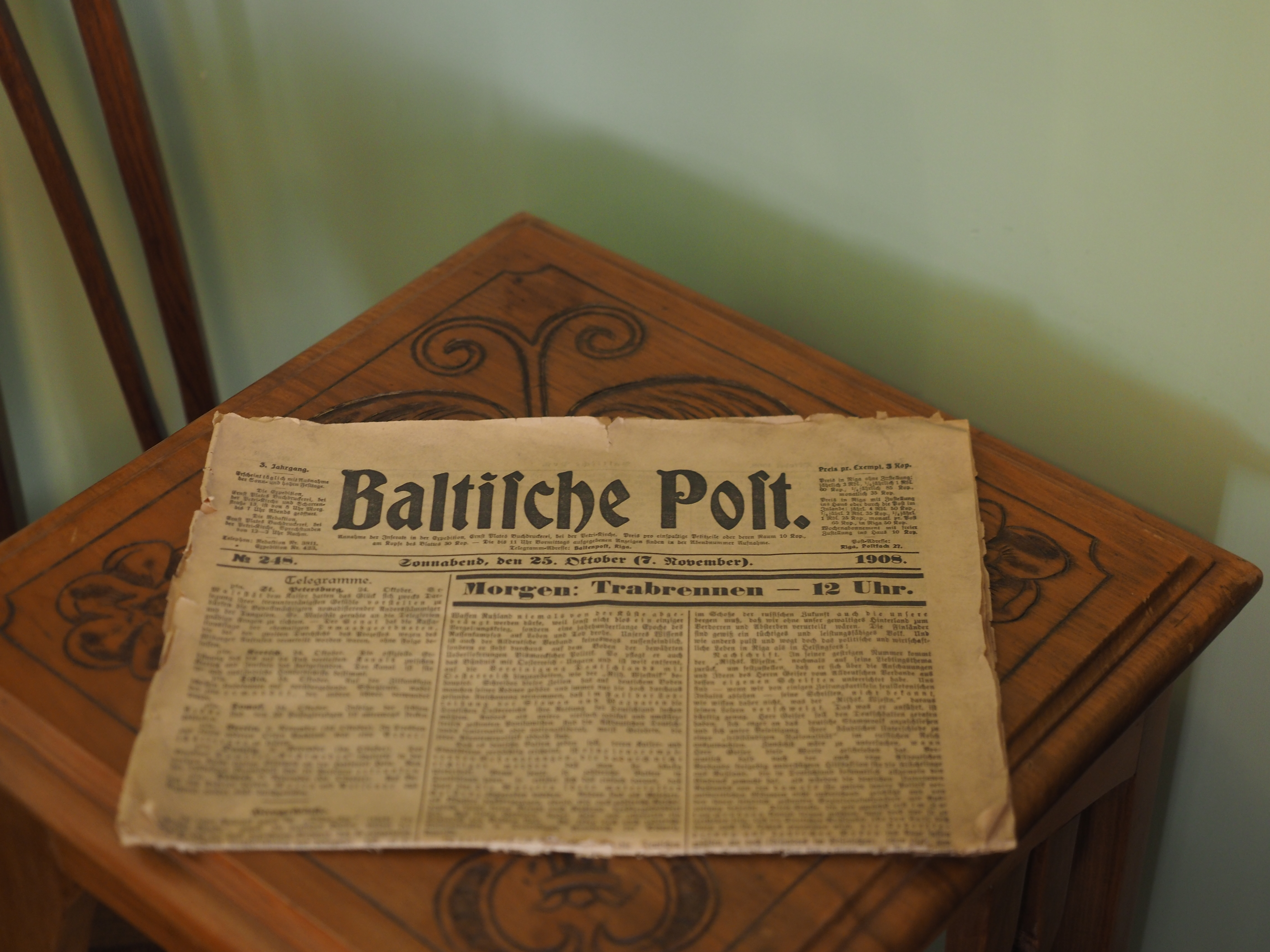 An original copy of the "Baltische Post" German language newspaper published in Riga, dated 25 October 1908, as a museum exhibit in Riga, Latvia.